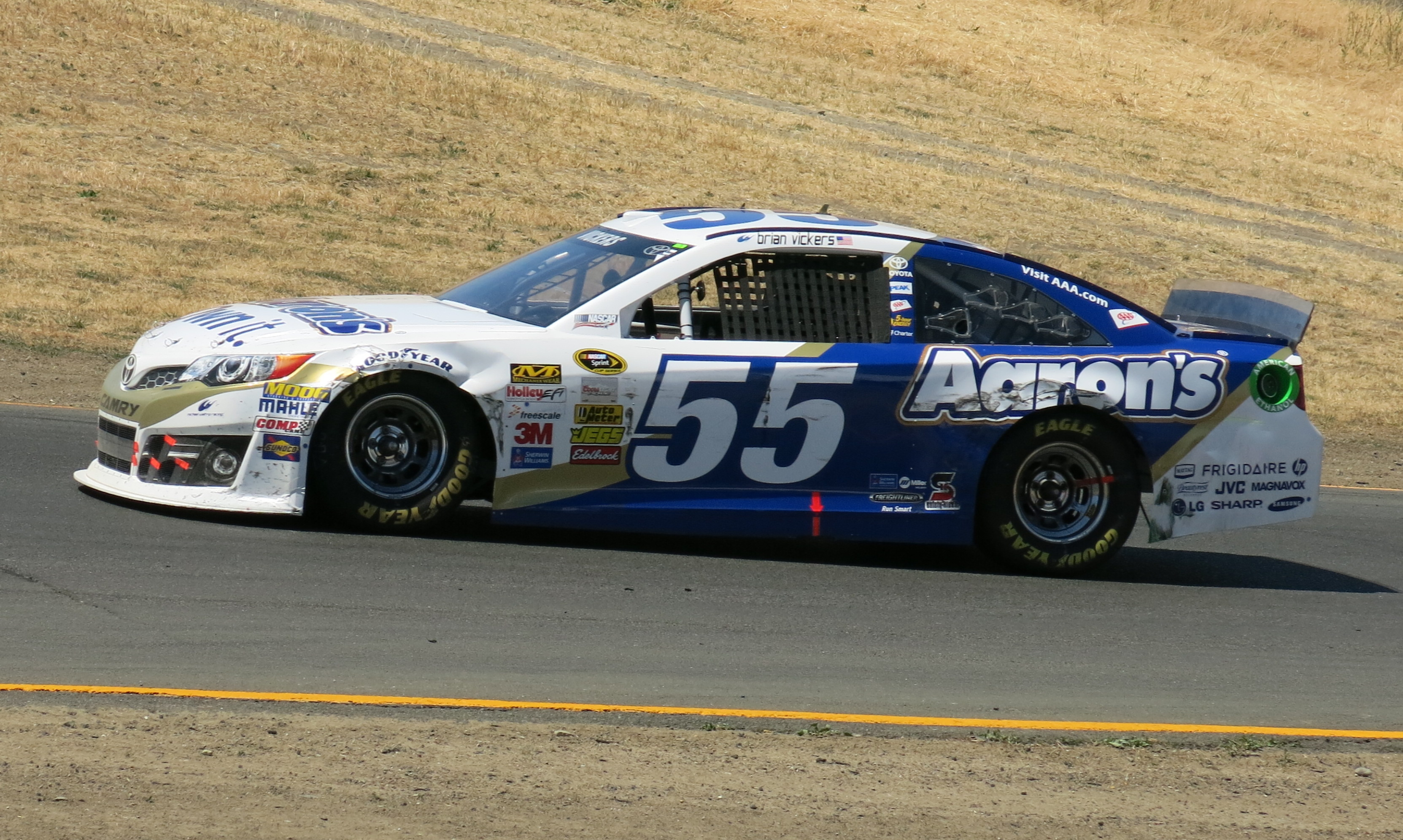 Brian Vickers' No. 55 Aaron's Toyota at Sonoma Raceway in 2014